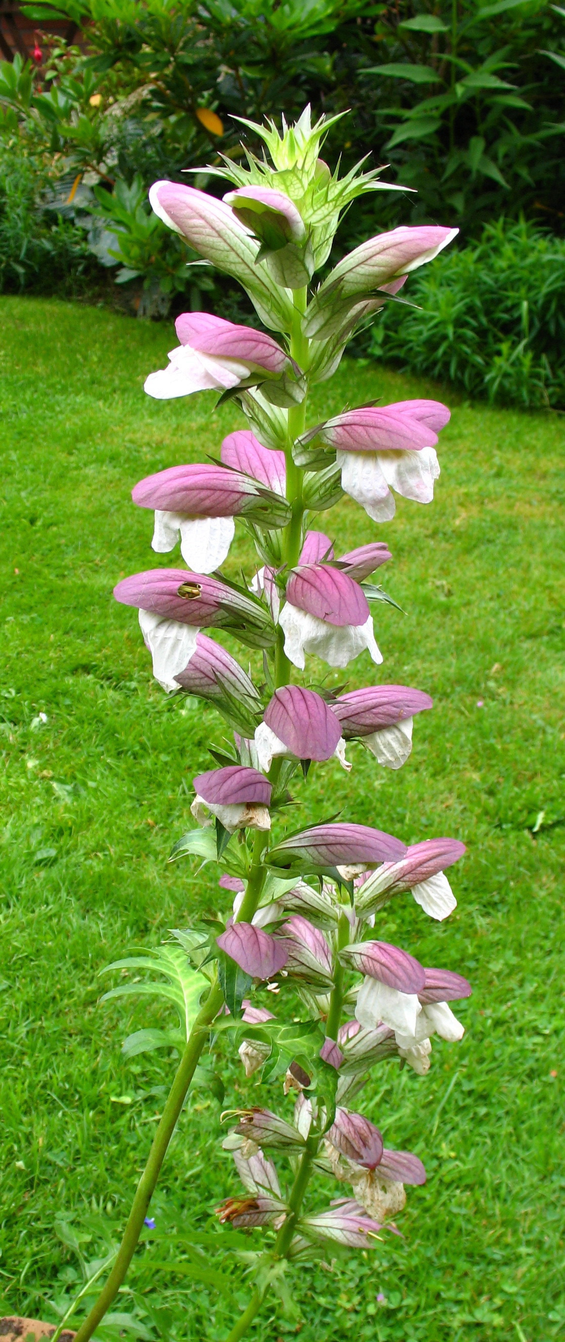 Acanthus mollis, fam. Acanthaceae